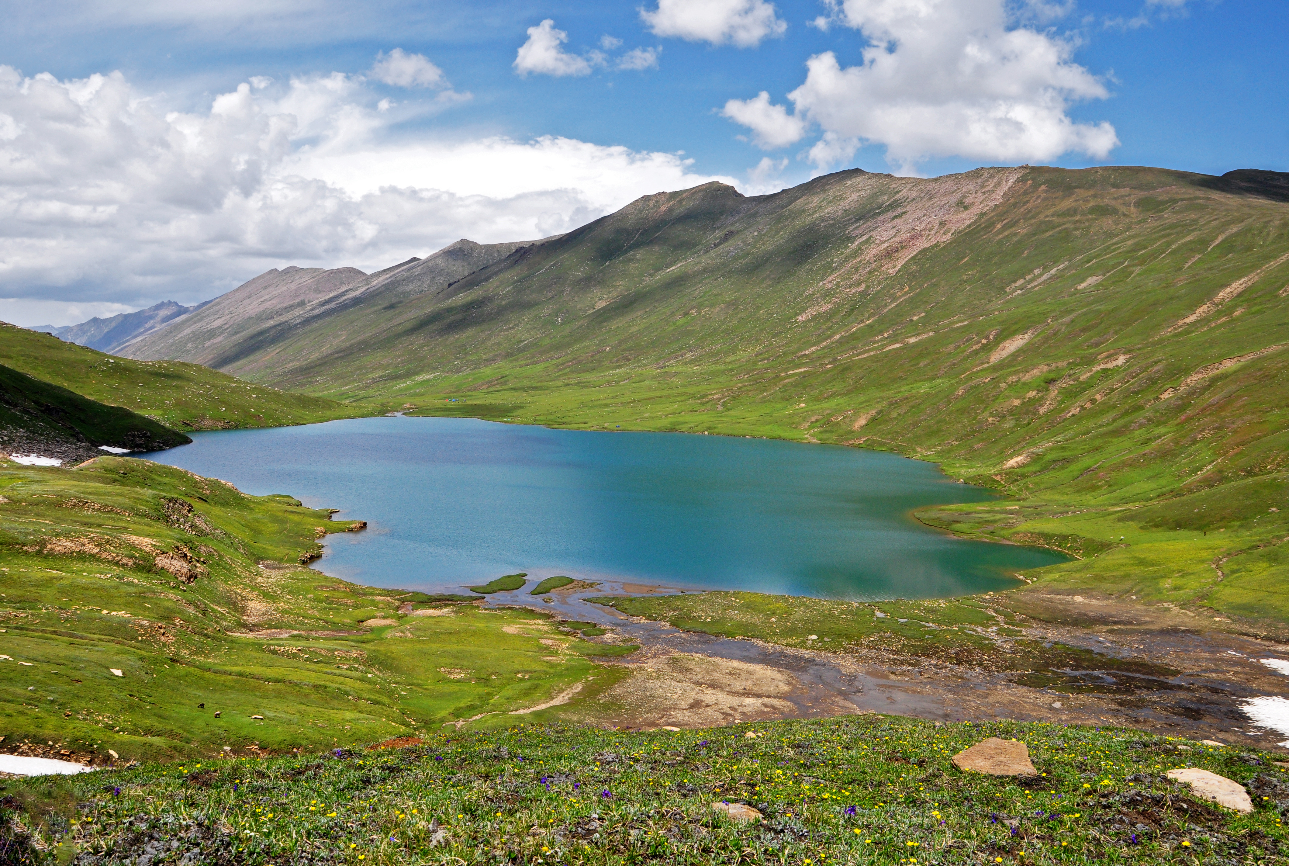 Lake full of trout fish Naran Pakistan